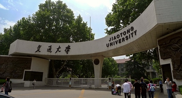 Main gate of Xi'an Jiaotong University